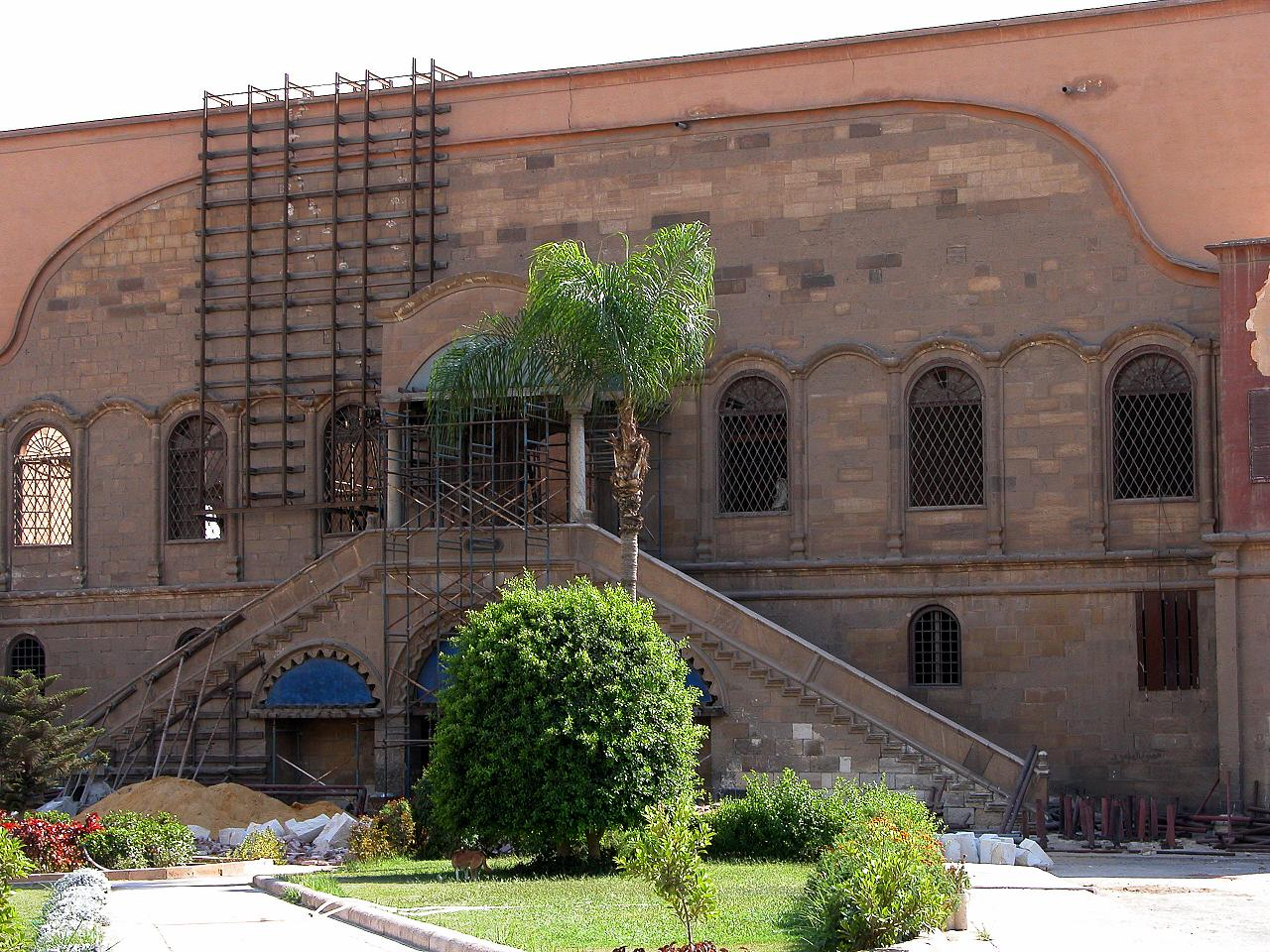 The Al-Gawhara Palace was built by Mohammed Ali in 1814. Part of the palace was burnt in the early 1970s but was again opened to the public in the 1980s but is under going construction now. Cairo, Egypt